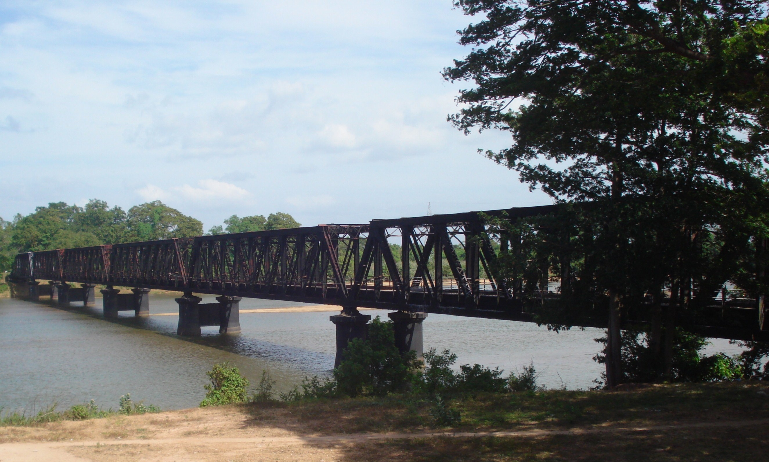 Iron bridge of Manampitiya. Used only for railway transportation now. This was the longest bridge in Sri Lanka (302m) until the 396m long Kinniya Bridge was built in 2009.